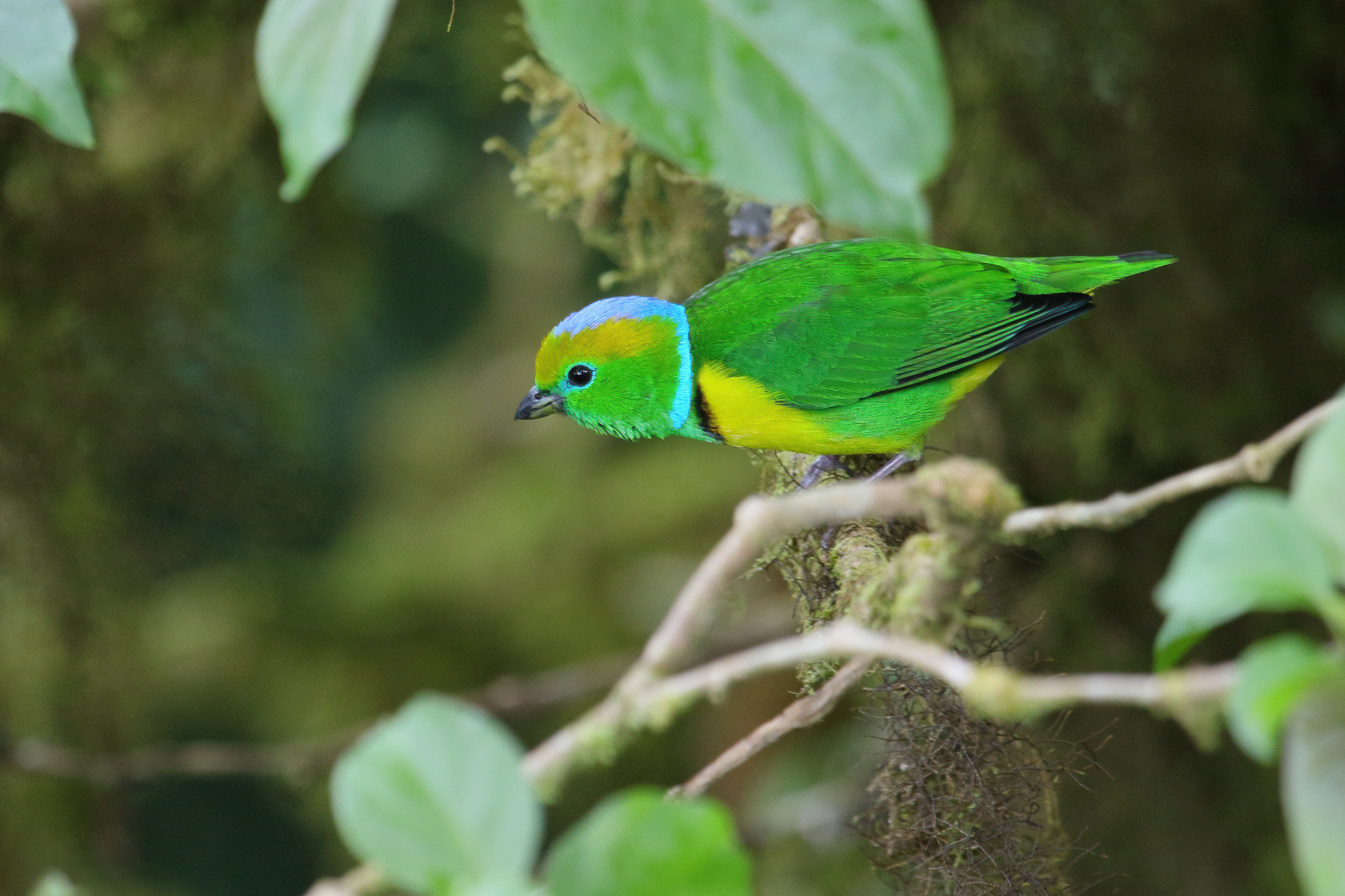 Golden-browed chlorophonia, Monteverde, Costa Rica